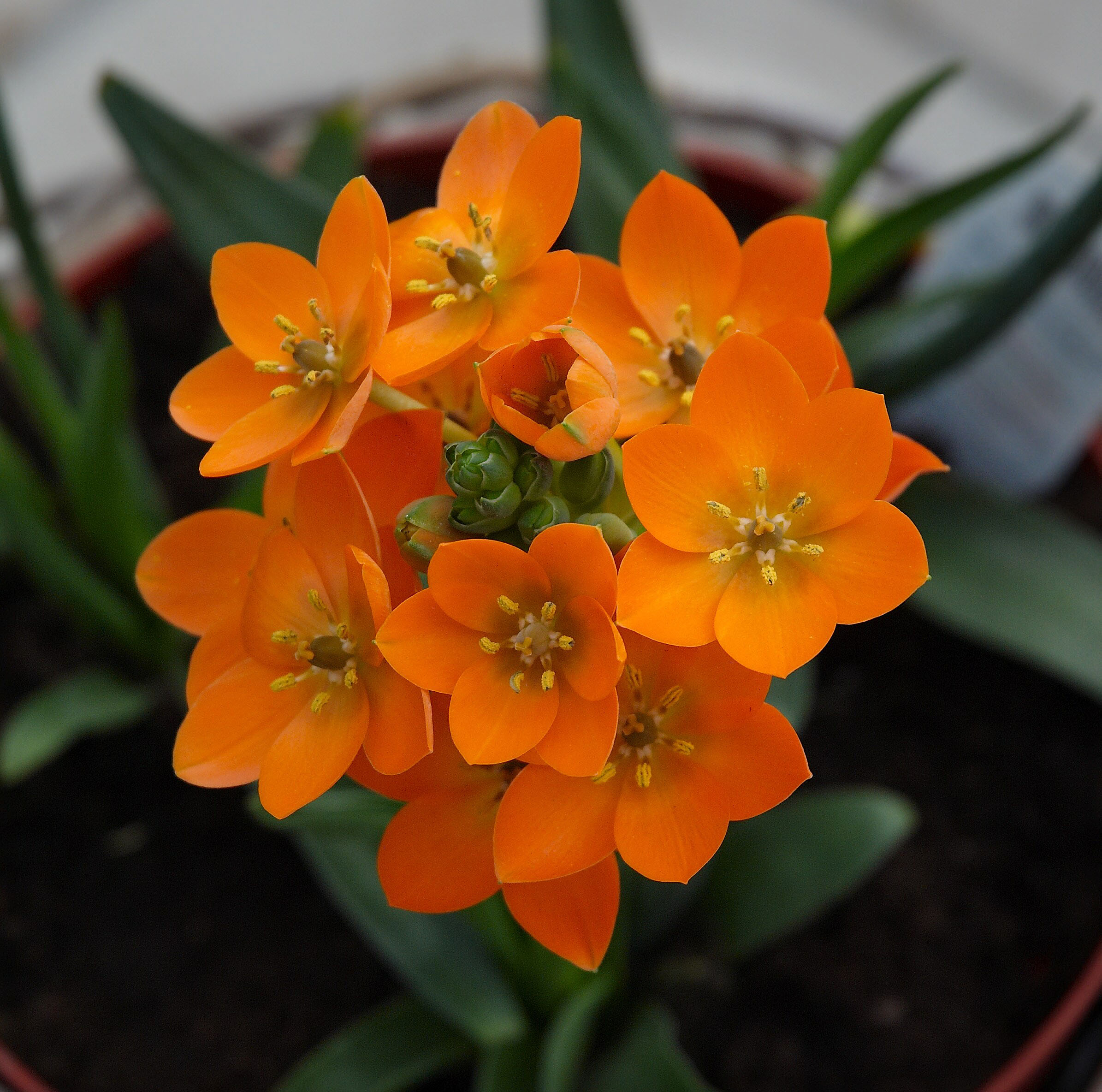 Sun Star